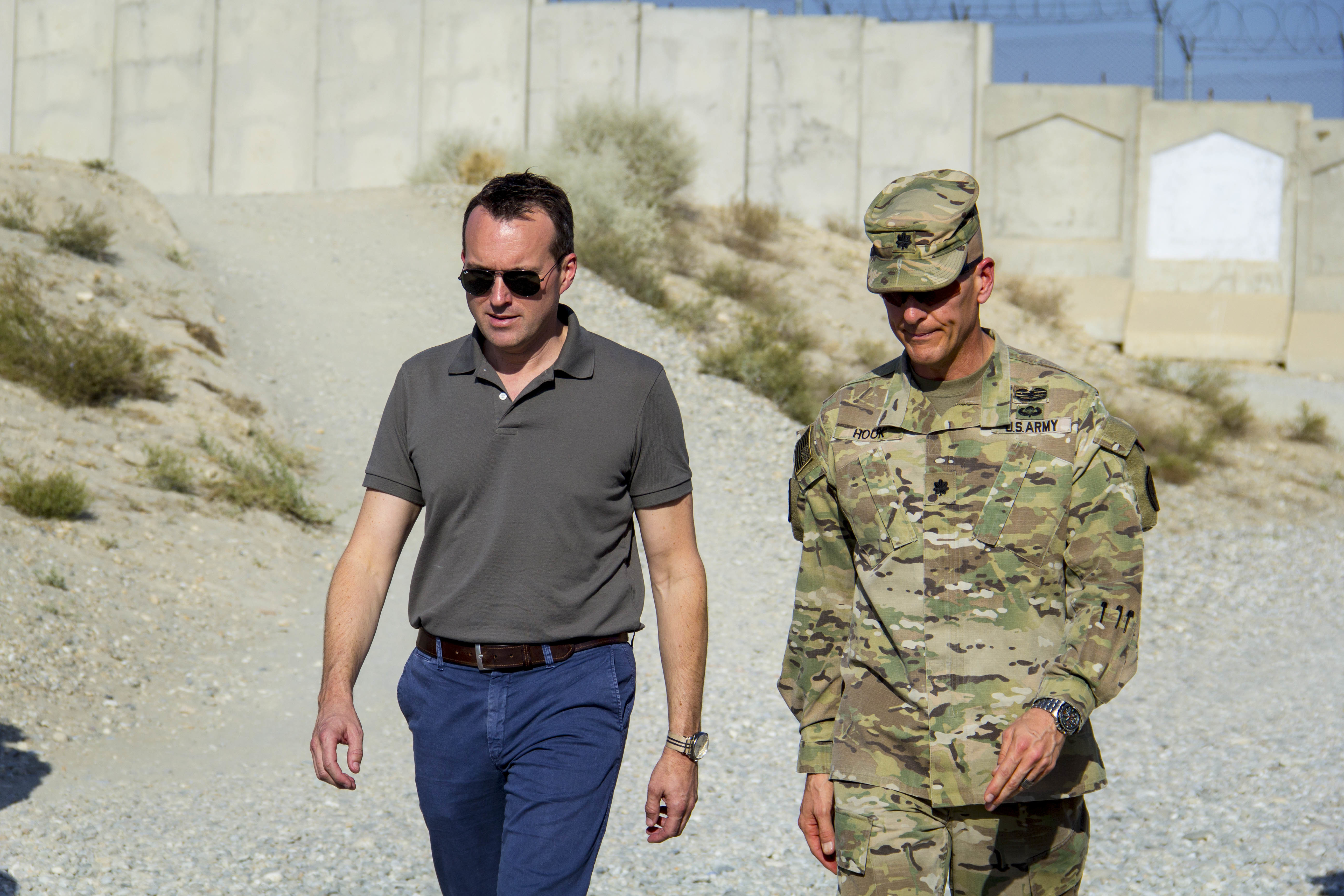 U.S. Army Lt. Col. Todd Hook, 3rd Squadron commander, 3rd Cavalry Regiment, walks with Secretary of the Army Eric Fanning around Tactical Base Gamberi, where the Train, Advise and Assist Command-East headquarters is located, during his visit to Afghanistan Sept. 16, 2016. Hook, the military advising team senior advisor, showed the secretary the different missions around the base his soldiers are conducting on a daily basis. Unit: 3d Cavalry Regiment Public Affairs Office